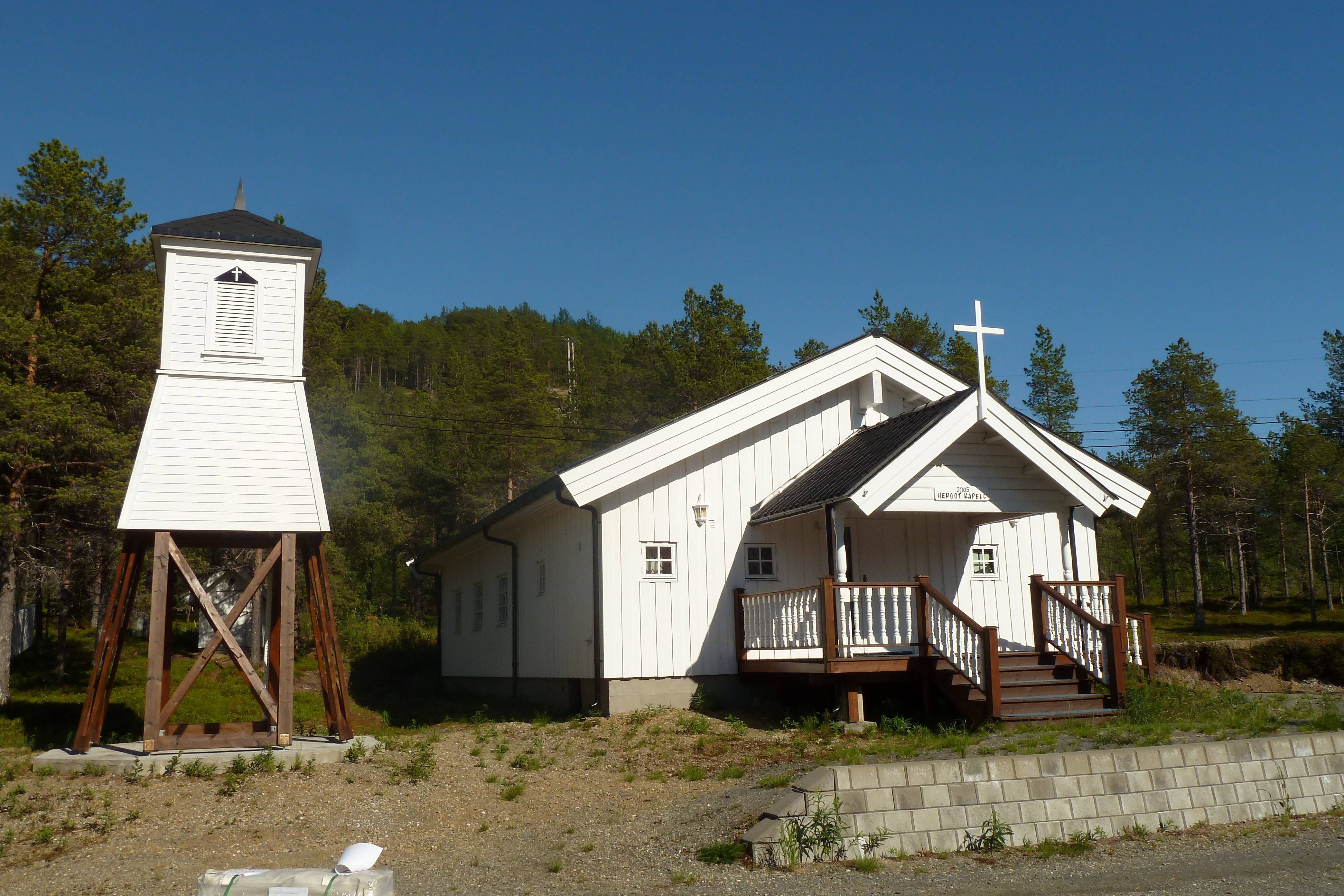 Hergot Chappel in Narvik, Nordland.